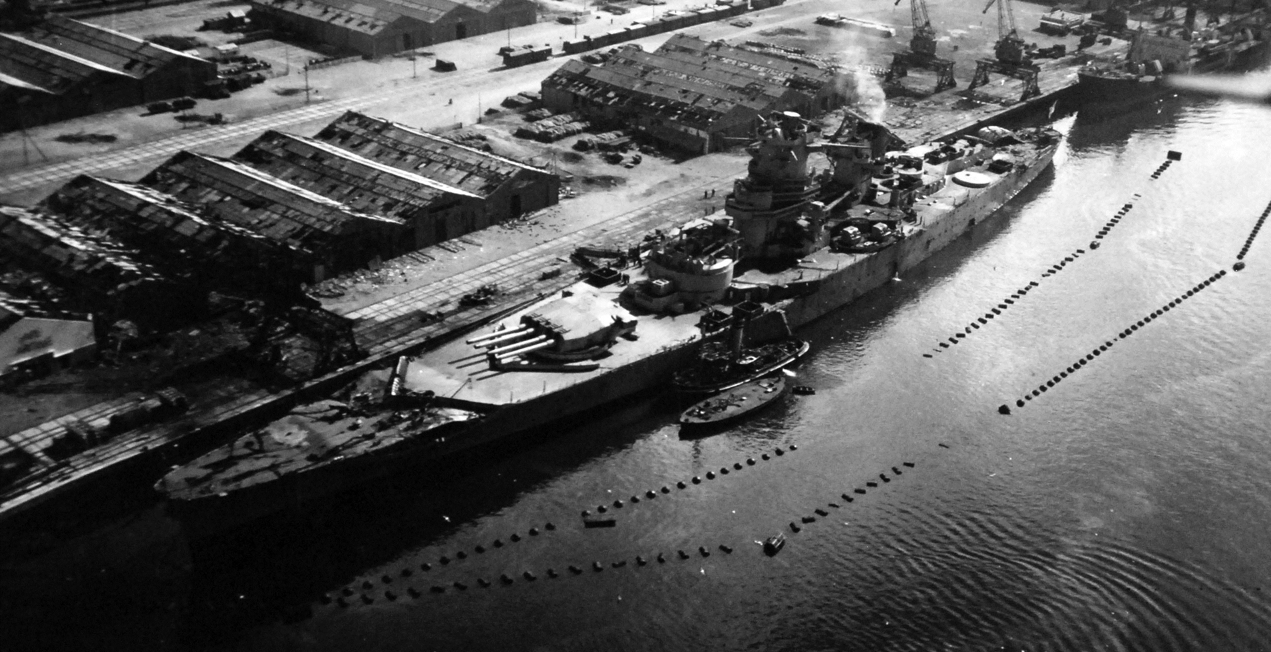 The French battleship Jean Bart, photogaphed from an airplane of the USS Ranger